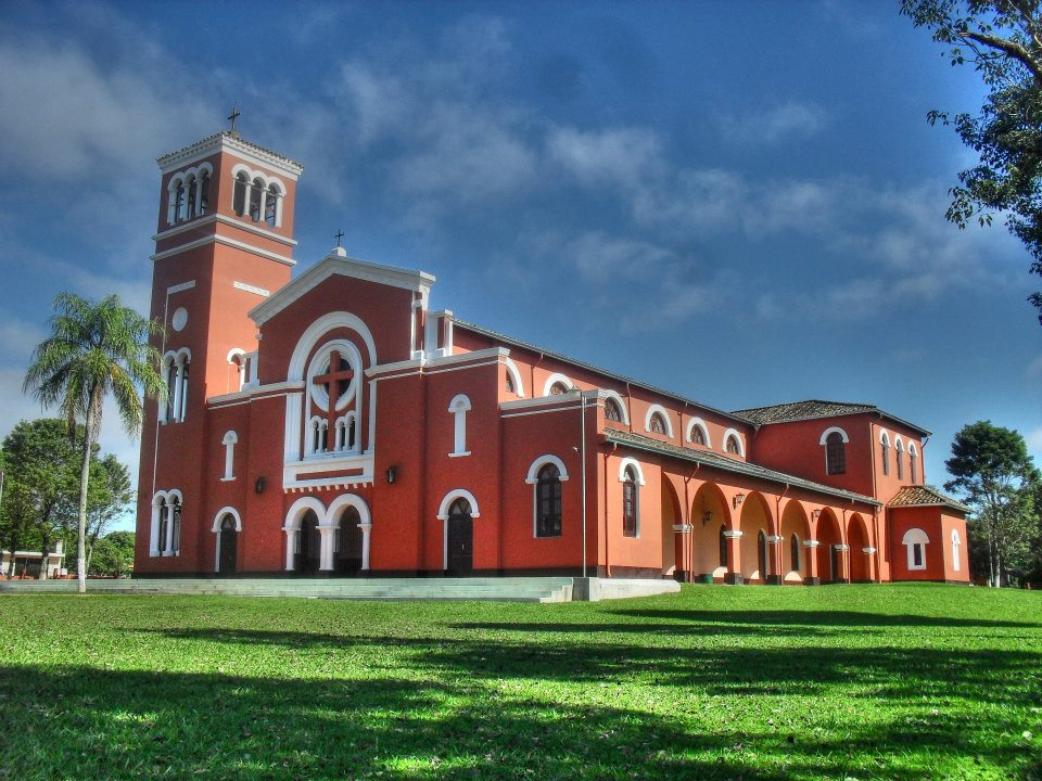 Patrono de la Ciudad